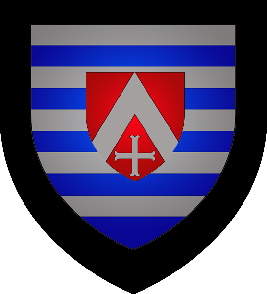 Coat of arms of the municipality of Ell, Luxembourg